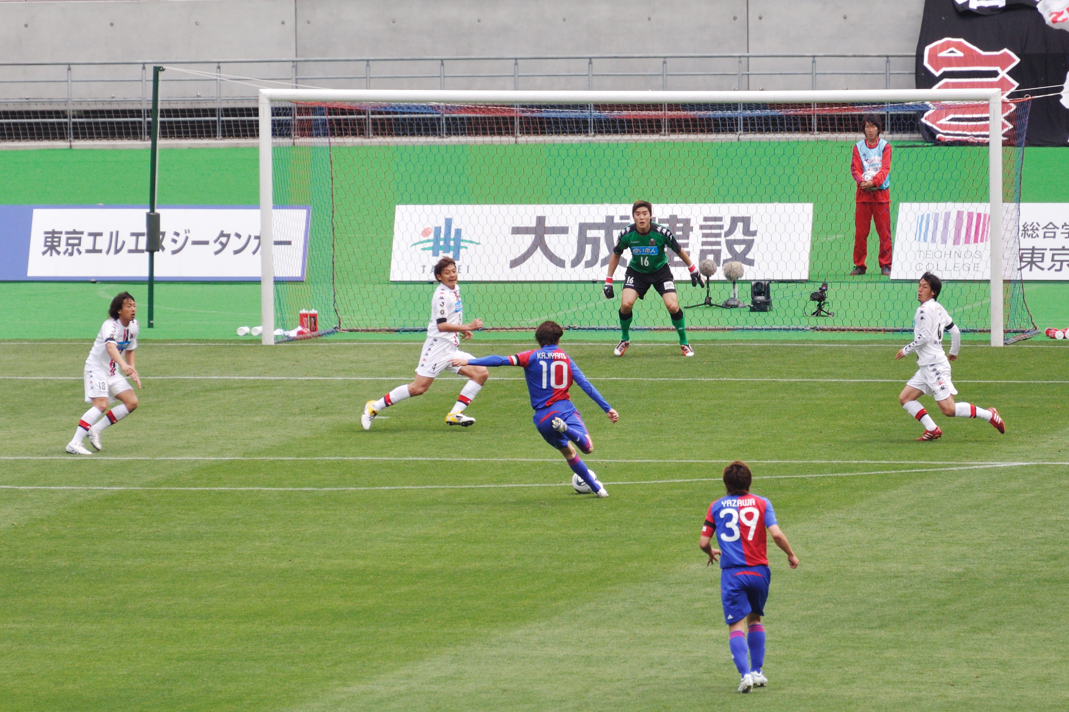 FC Tokyo vs Consadole Sapporo 30 March 2011